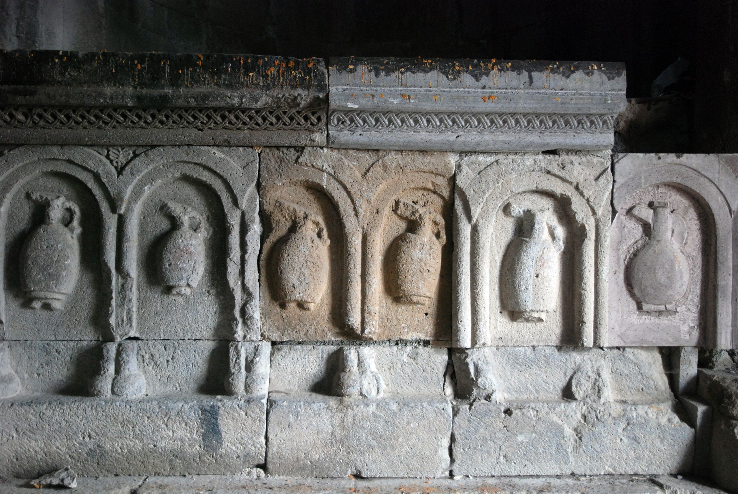 Tsakhats Kar, Surb Karapet, apse